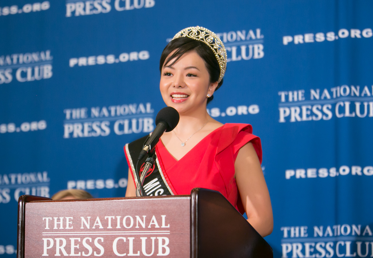 Miss World Canada 2015 speaks at the National Press Club on December 18, 2015, in Washington, D.C.